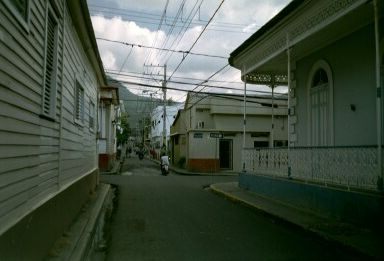 City of Puerto Plata, Dominican Republic